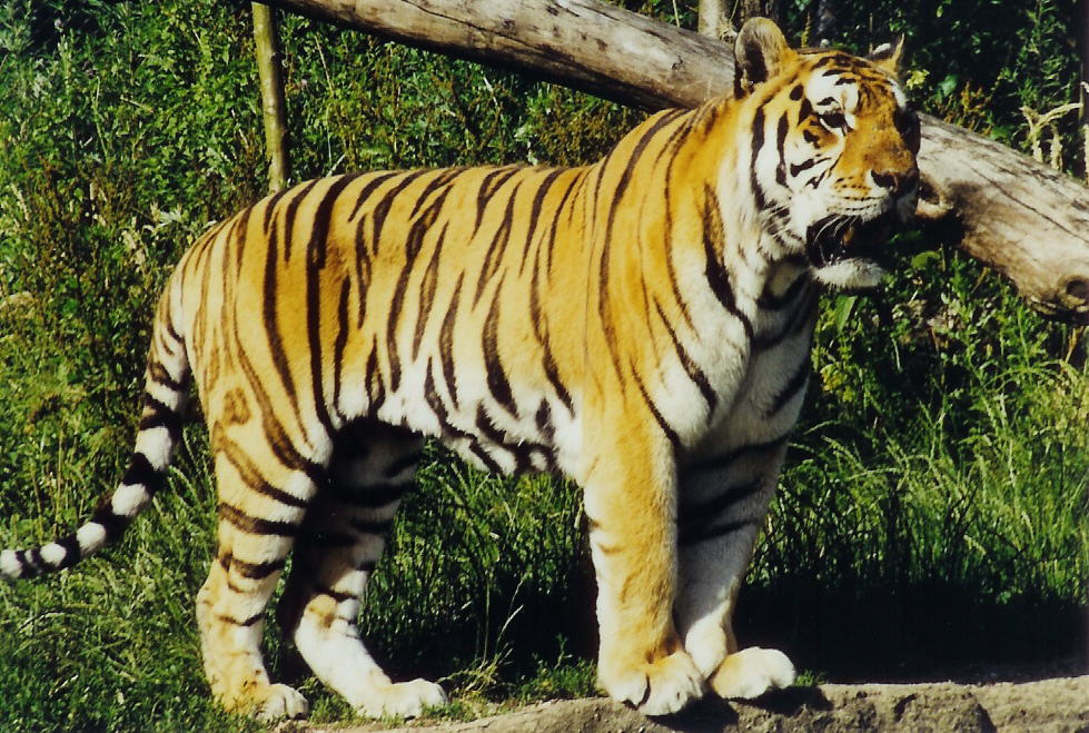 An Amur or Siberian tiger (Panthera tigris altaica) in Tierpark Hagenbeck, Hamburg, Germany.